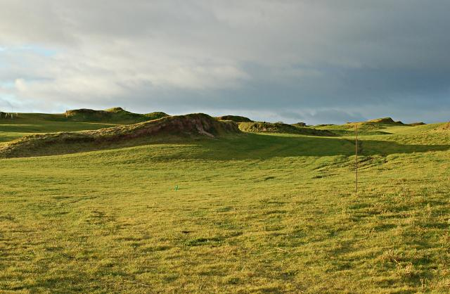 Castle Course, Kinkell Braes Most of the heavy plant has gone, the greens are all sown and the trees are planted on the Links Trust course No 7 now named as the Castle Course, St Andrews. Due to open next year, 2008. See what it was like almost 2 years ago 15008